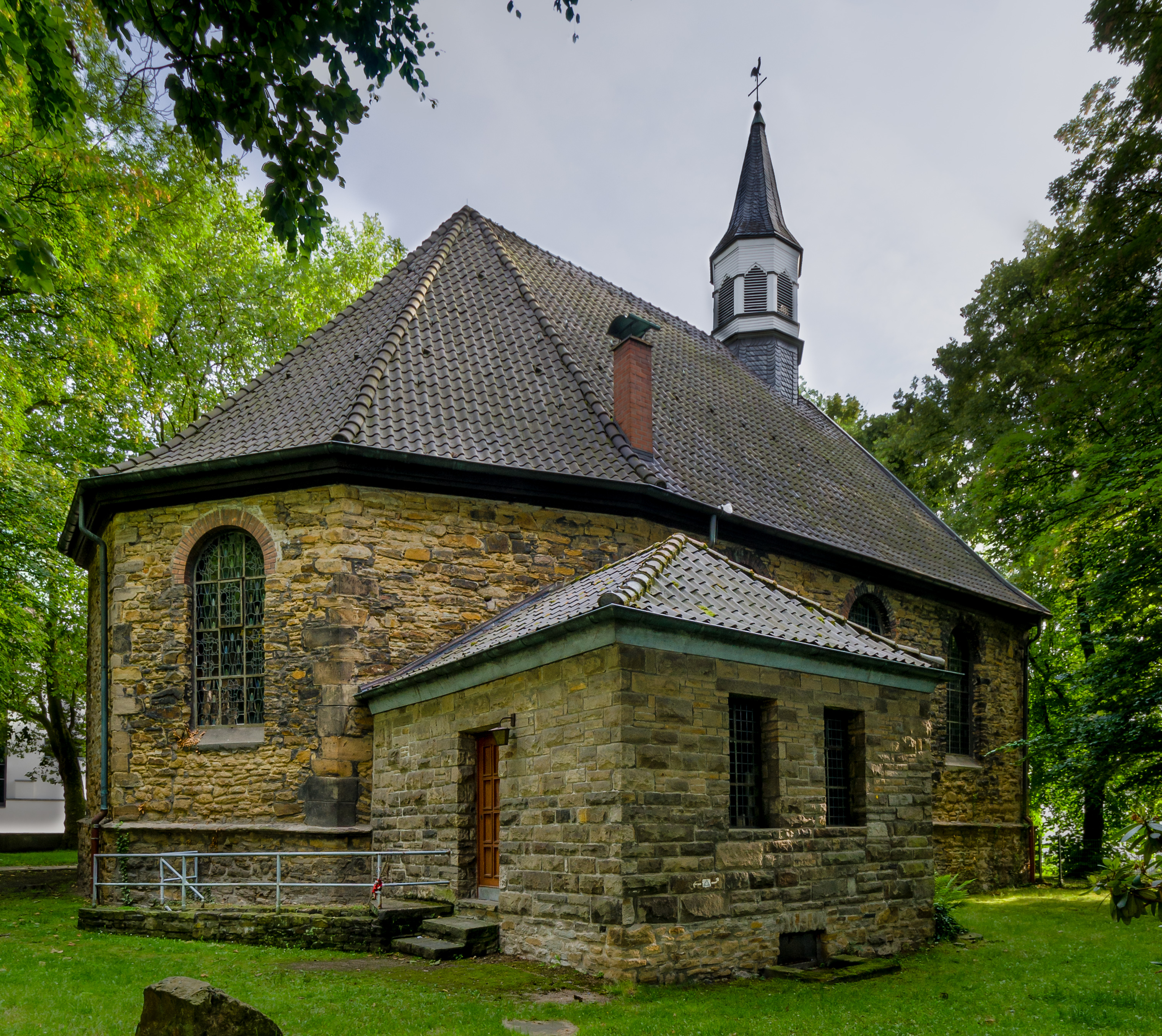 Old Protestant Church of Wattenscheid